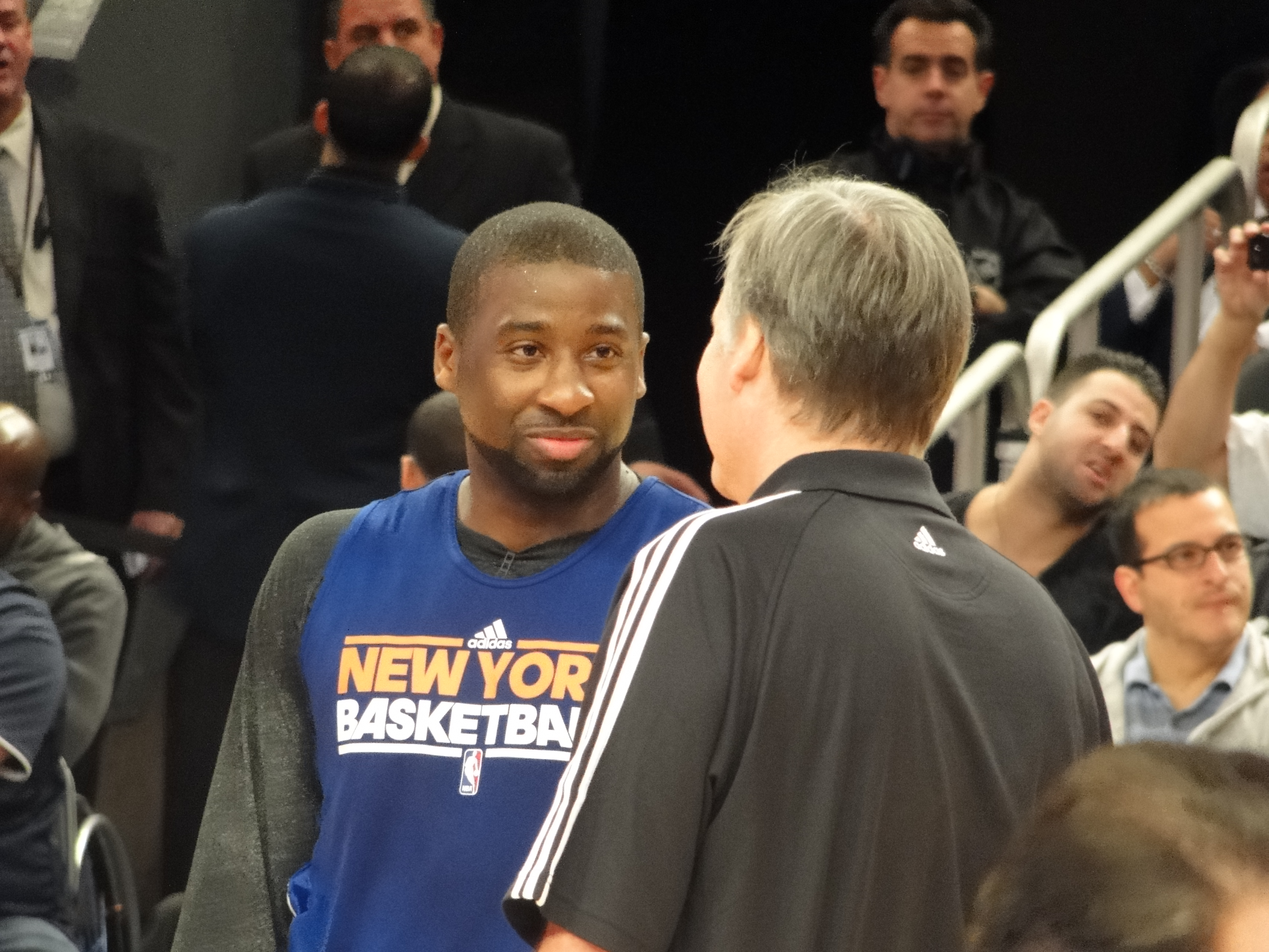 Raymond Felton of the Knicks with Coach Mike D'Antoni.